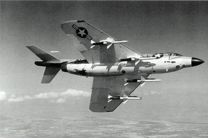 A McDonnell F3H-2M Demon armed with four AIM-7 Sparrow air-to-air missiles, about 1958.